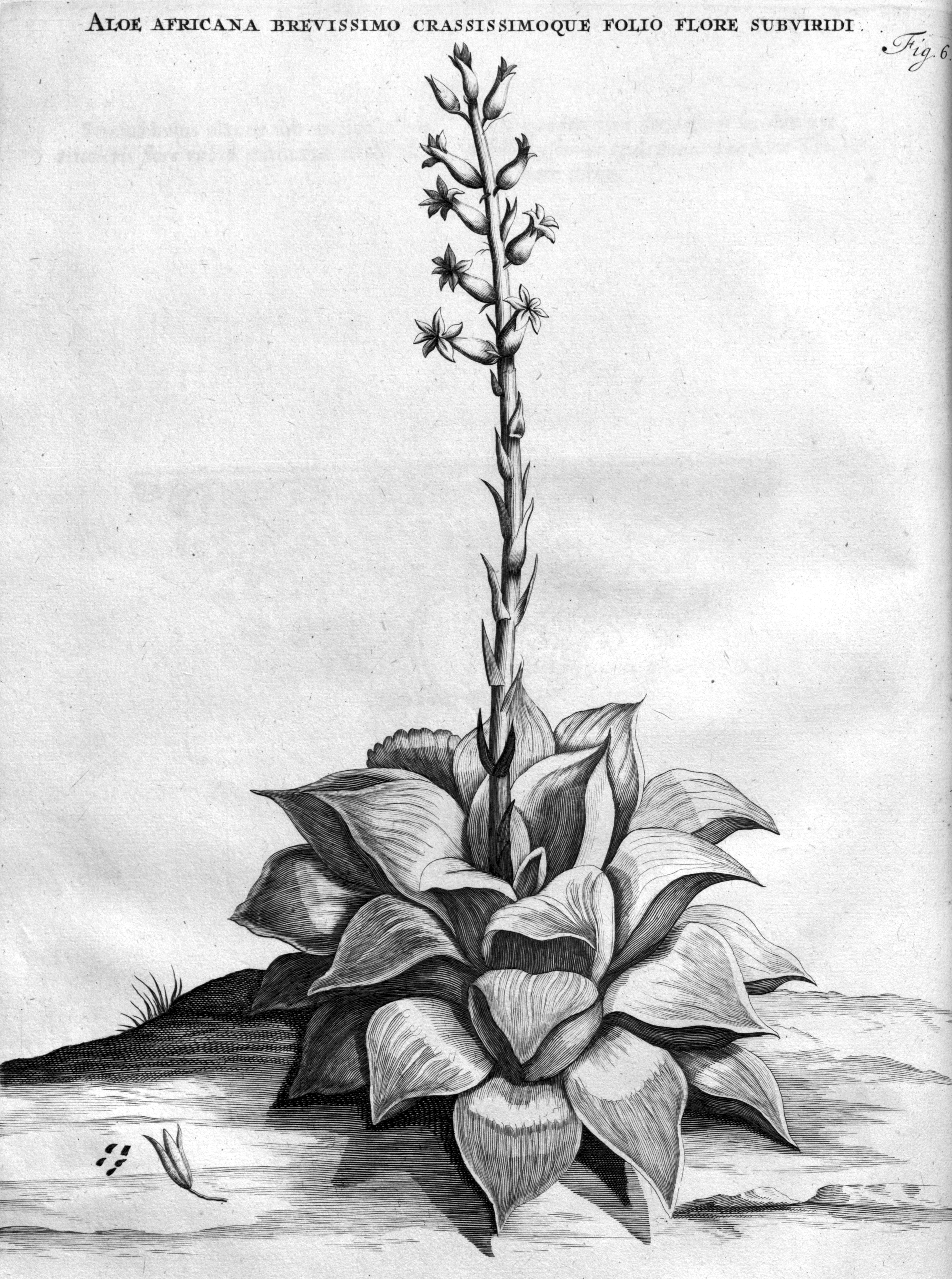 Iconotype of Haworthia retusa